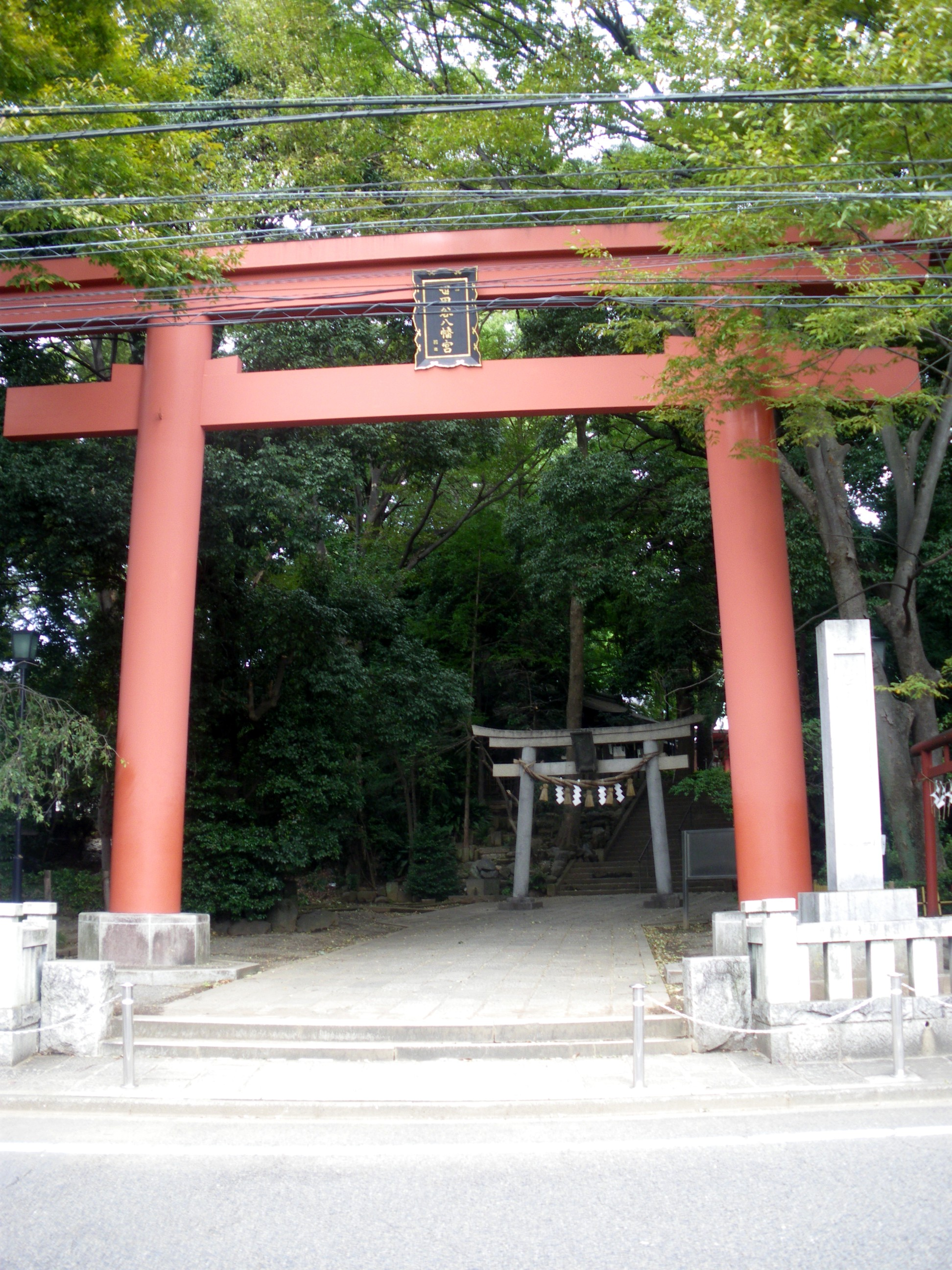 Setagaya Hachimangu(Miyasaka,Setagaya,Tokyo)